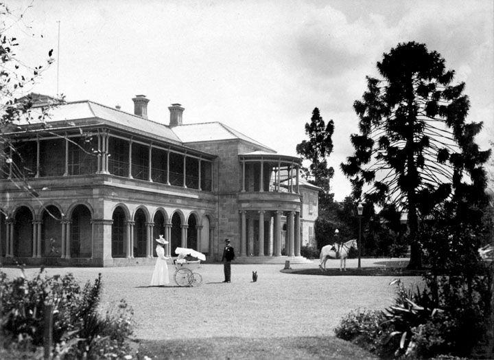 Photographic Material - Old Government House, Brisbane City